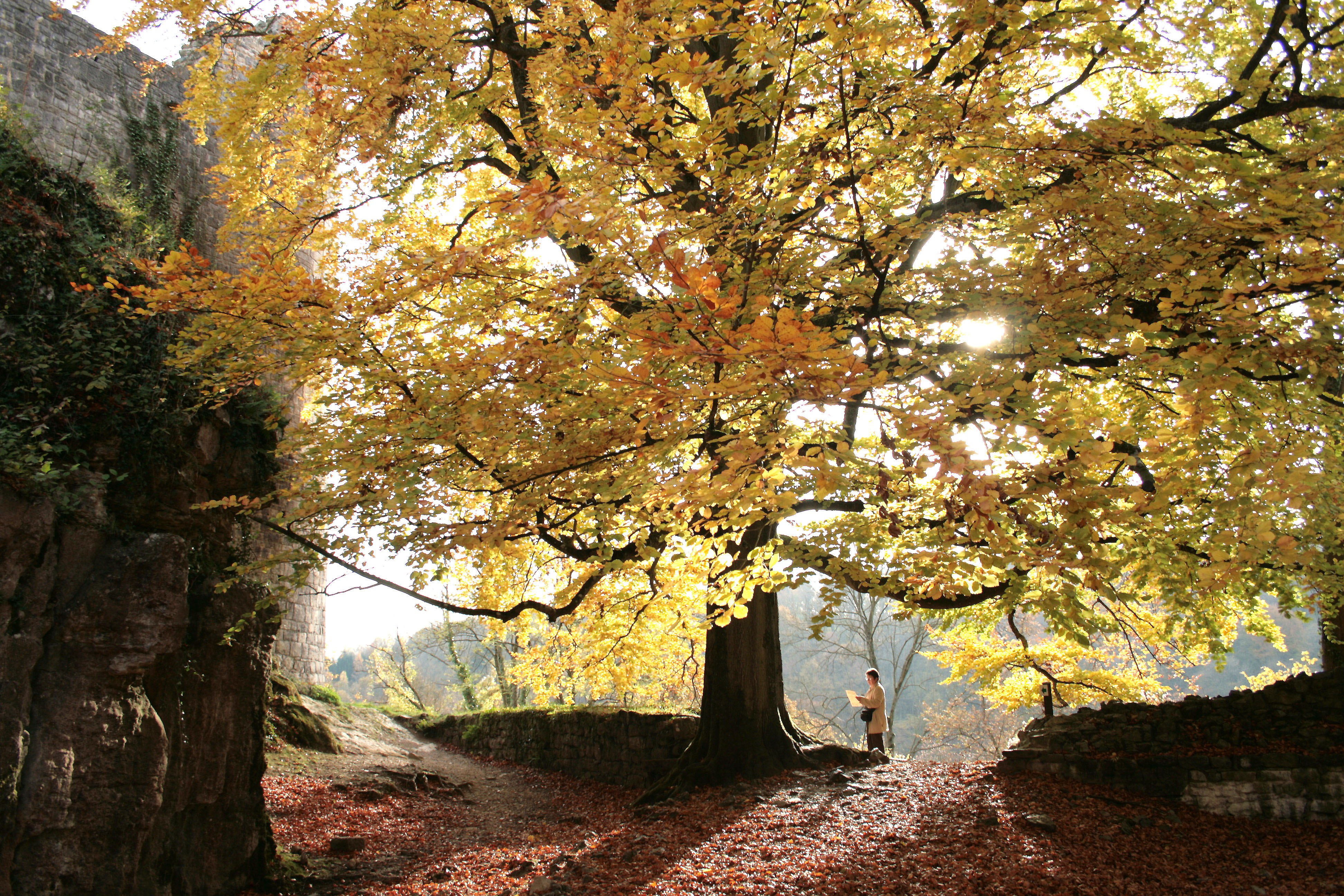 Fagus sylvatica - Logne castle (Belgium).